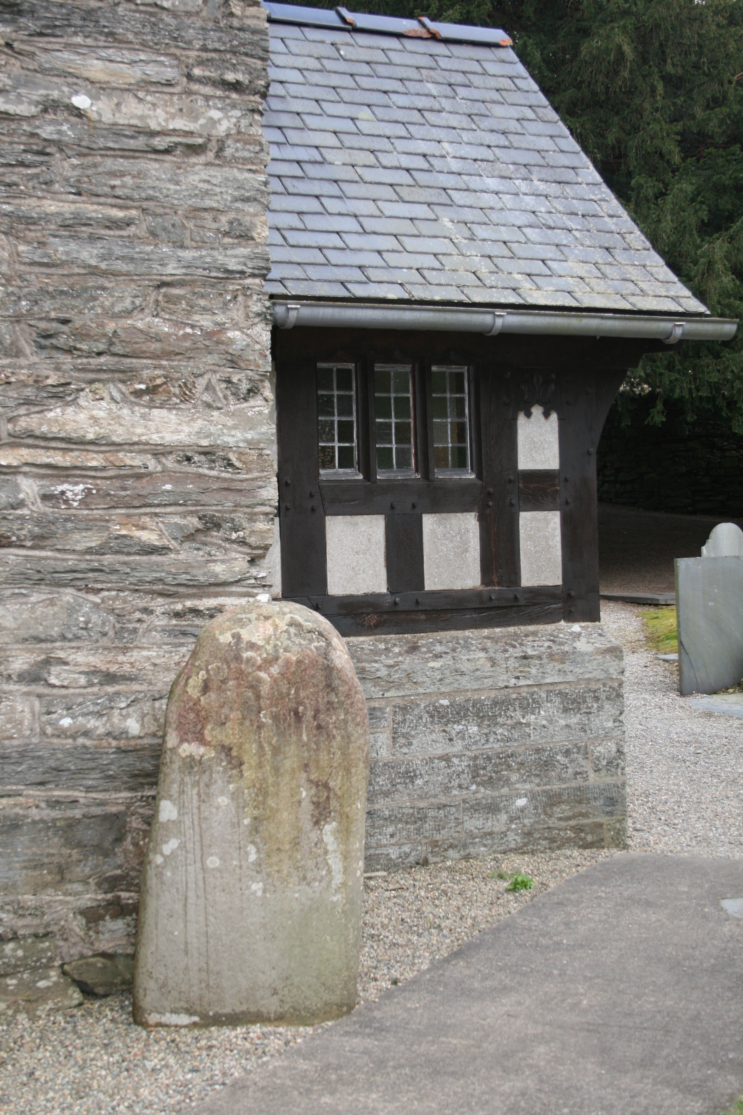 Twrogs stone in Maentwrog